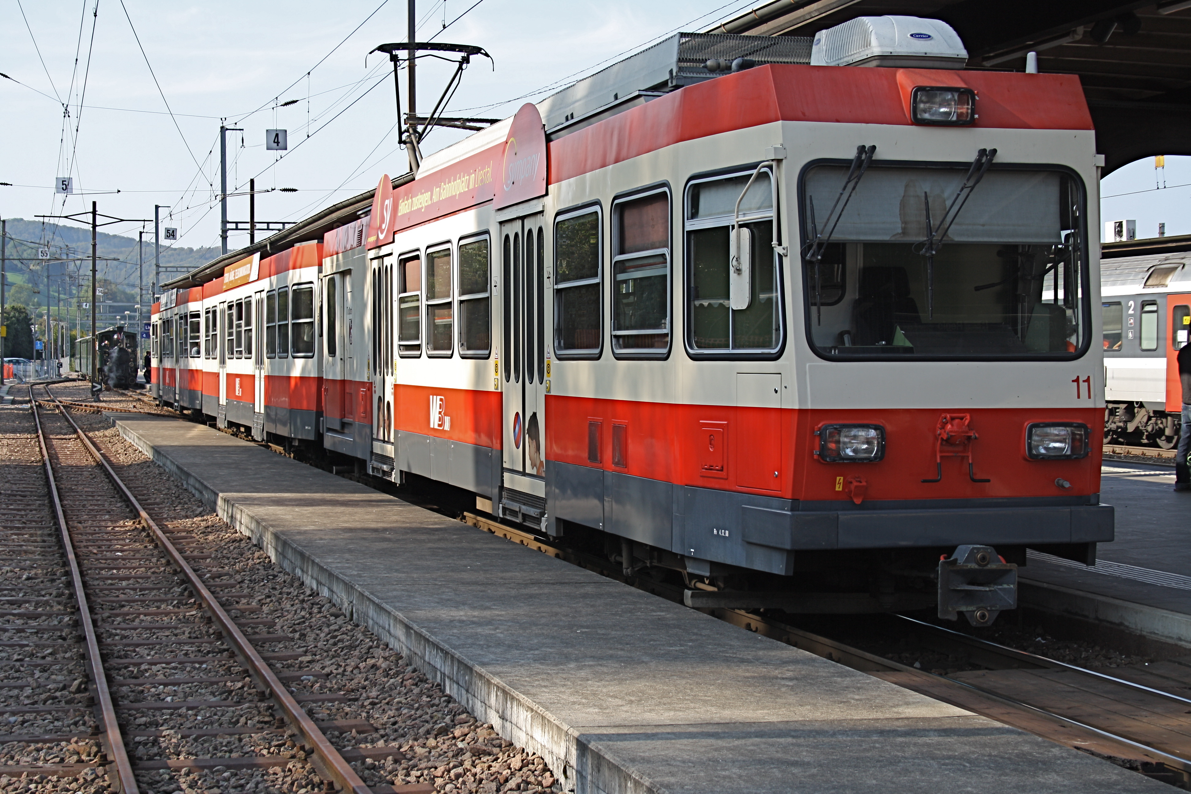 Three-car train of the Waldenburgerbahn, a 750mm-gauge light railway in north central Switzerland, at Liestal station. This is car 11, built in 1985 by Schindler, coupled to two trailers (or one motor car and one trailer) of similar type.